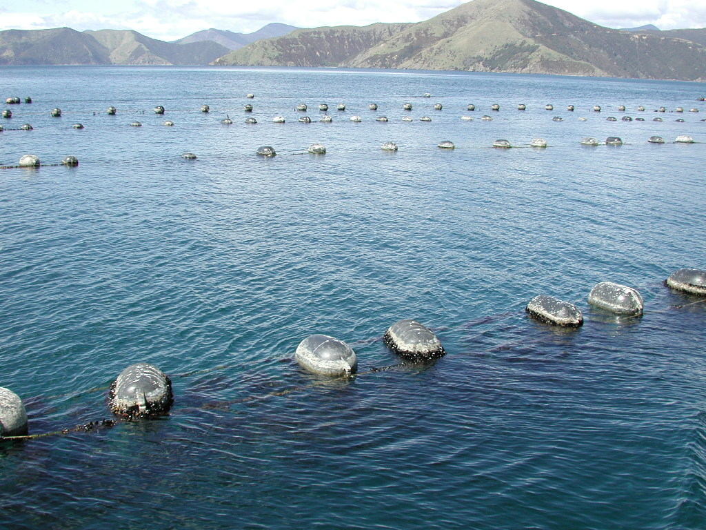 Mussel farm near Port Ligar in the outer Pelorus Sound